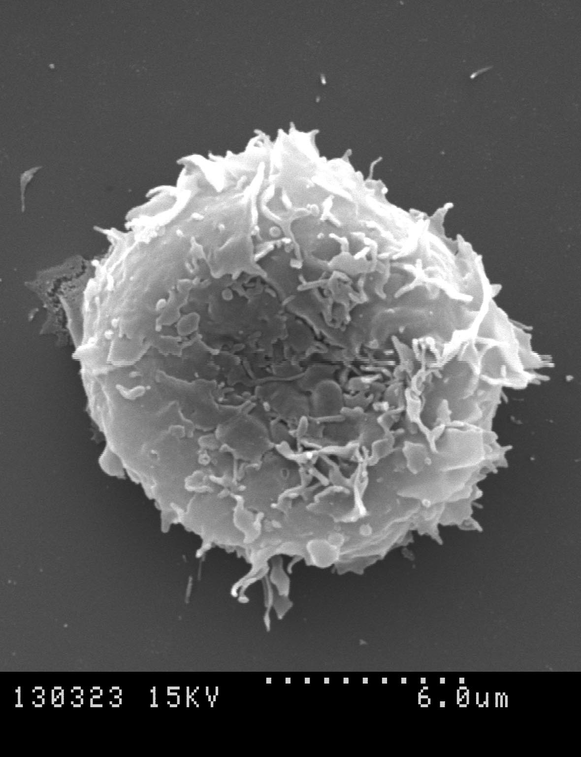 Monocyt SEM image. Taken in the Microscope Service of Universitat Autònoma de Barcelona (UAB).